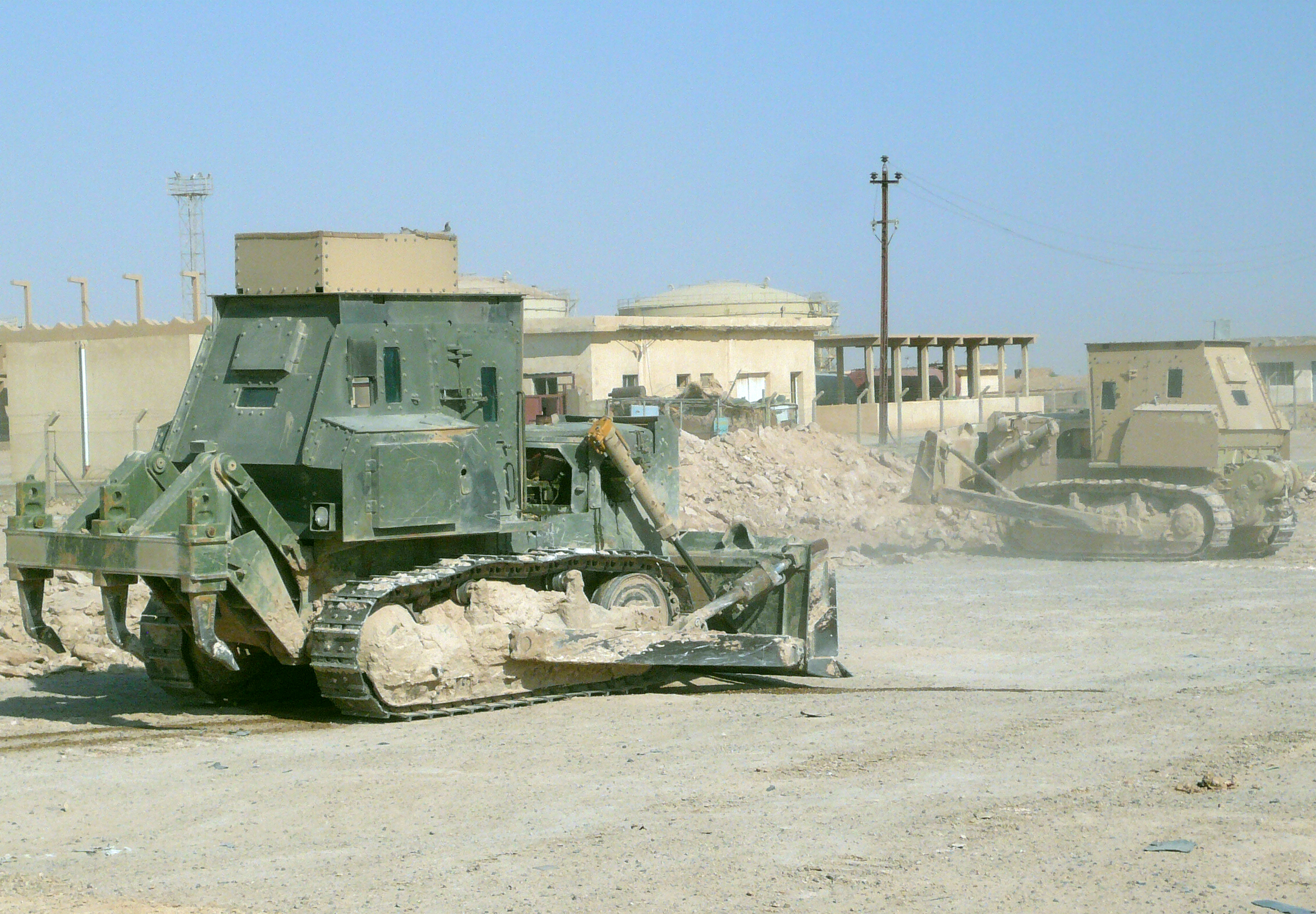 Taken on 7APR07 by Andy Patton. Photo Taken in Ramadi, Iraq.